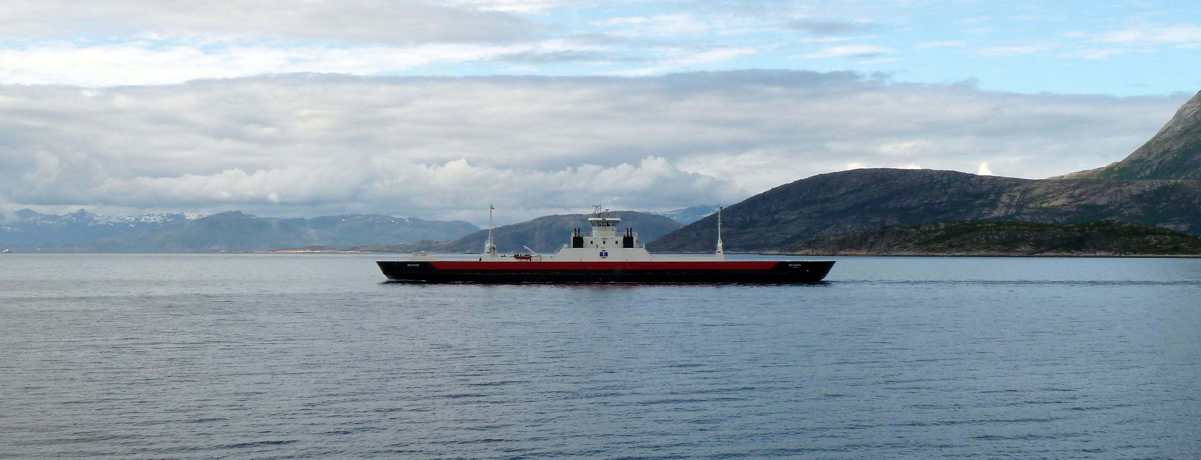 Car ferry "Melshorn" in trafic from Skarberget to Bognes (E6) at Tysfjorden, Norway.